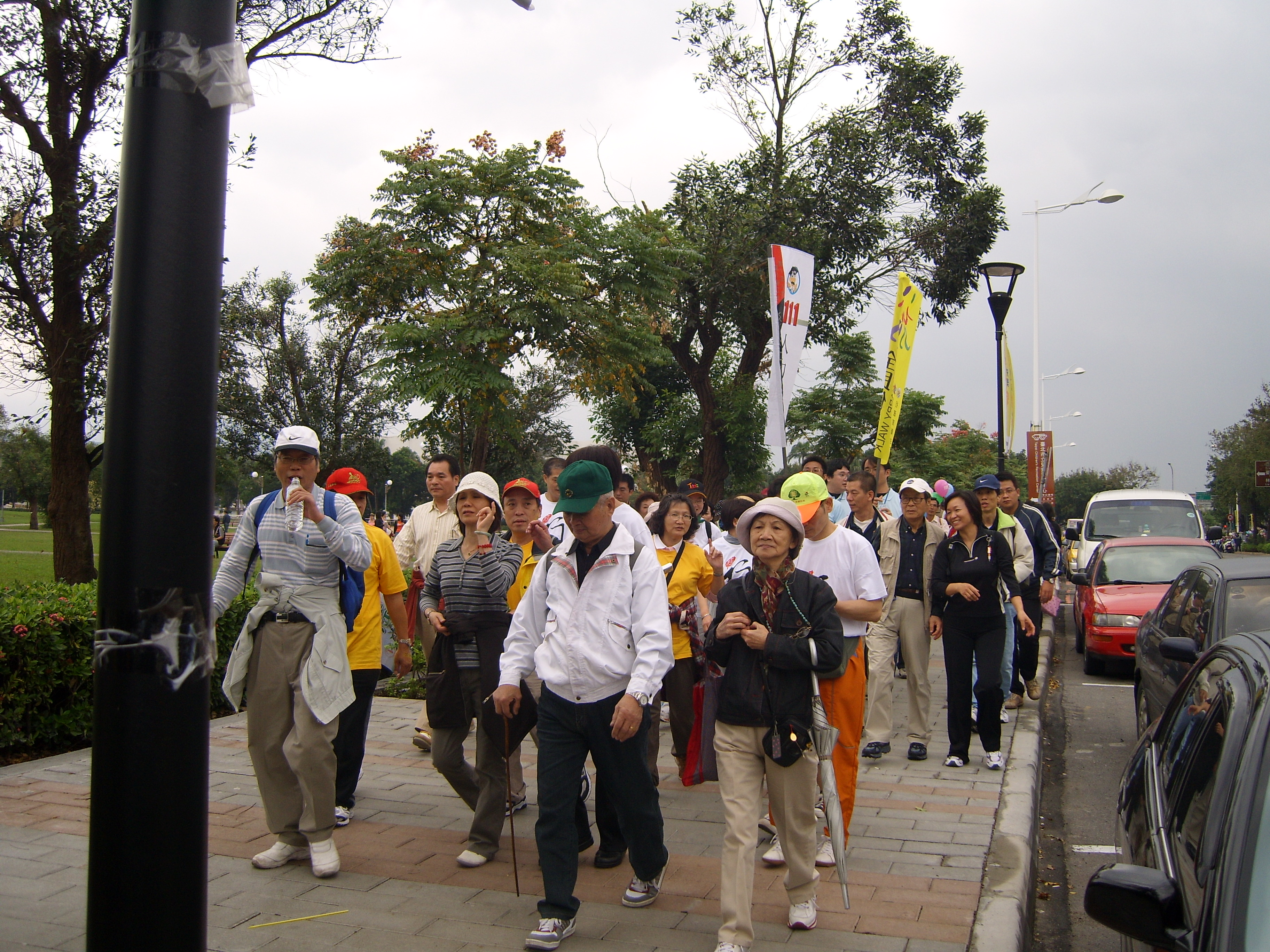 Lines of 2007 Taiwan Walking Day in Taipei.